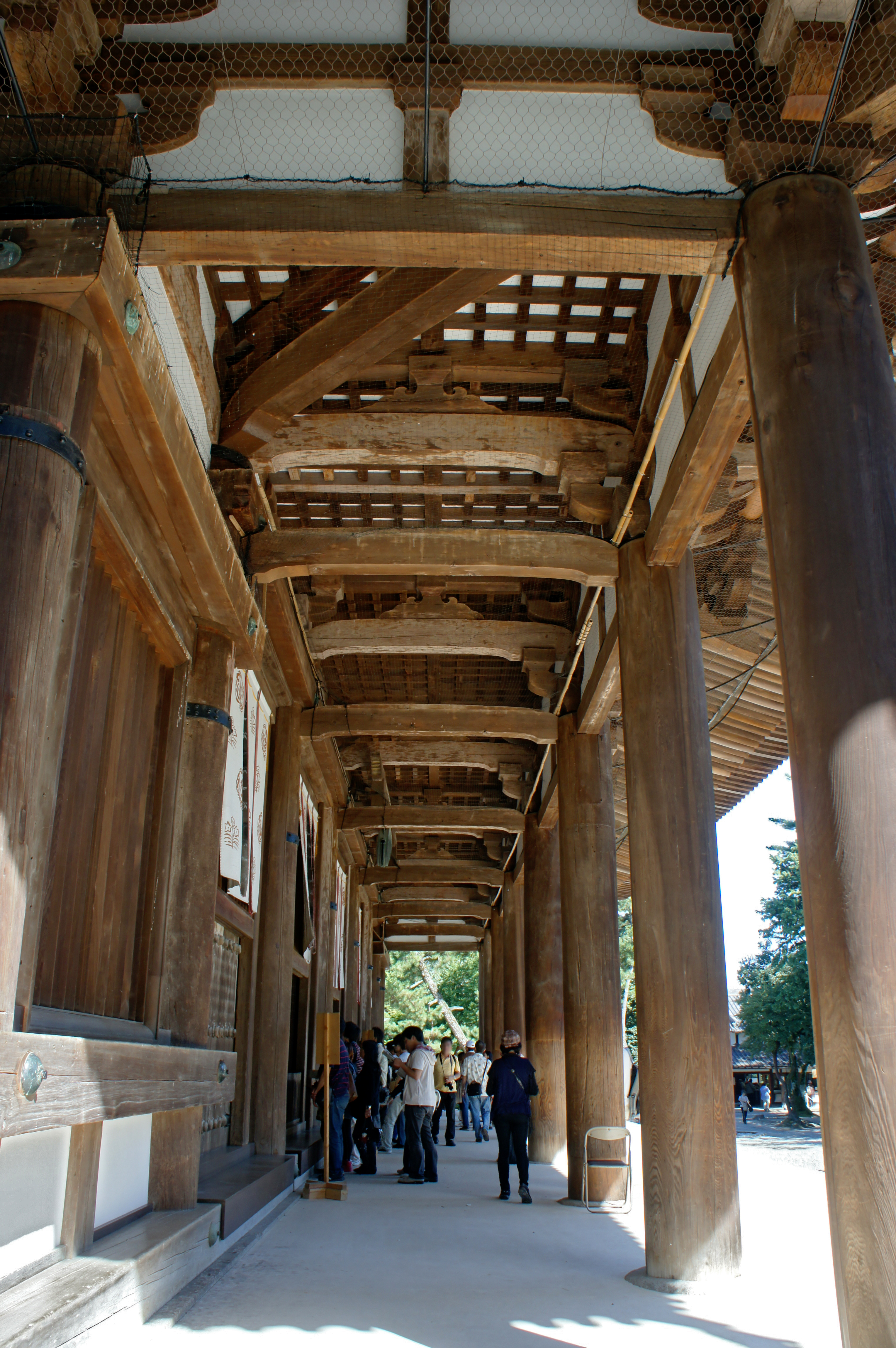 Tōshōdai-ji's Golden Hall is a Japan's National Treasure in Nara, Nara prefecture, Japan. It was built at the Nara period (AD 710 to 794).